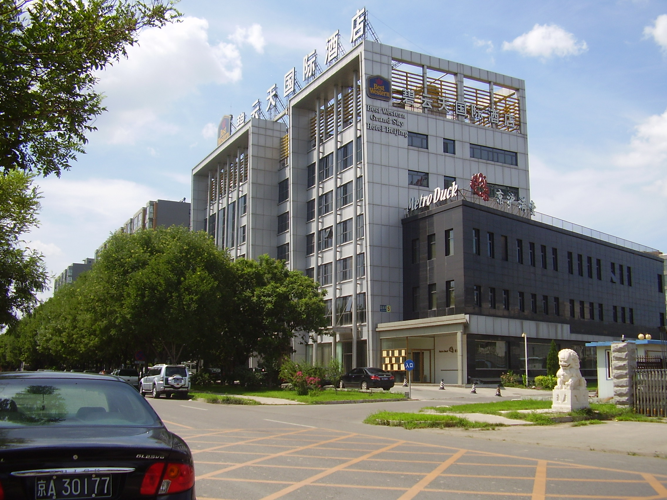 Best Western Grand Sky Hotel Beijing (S: 最佳西方北京碧云天国际酒店, T: 最佳西方北京碧雲天國際酒店, P: Zuìjiā Xīfāng Běijīng Bì Yún Tiān Guójì Jiǔdiàn) - No.5 Lanting Garden, District A, Konggang Tianzhu, Shunyi District, Beijing P.R. China 101312